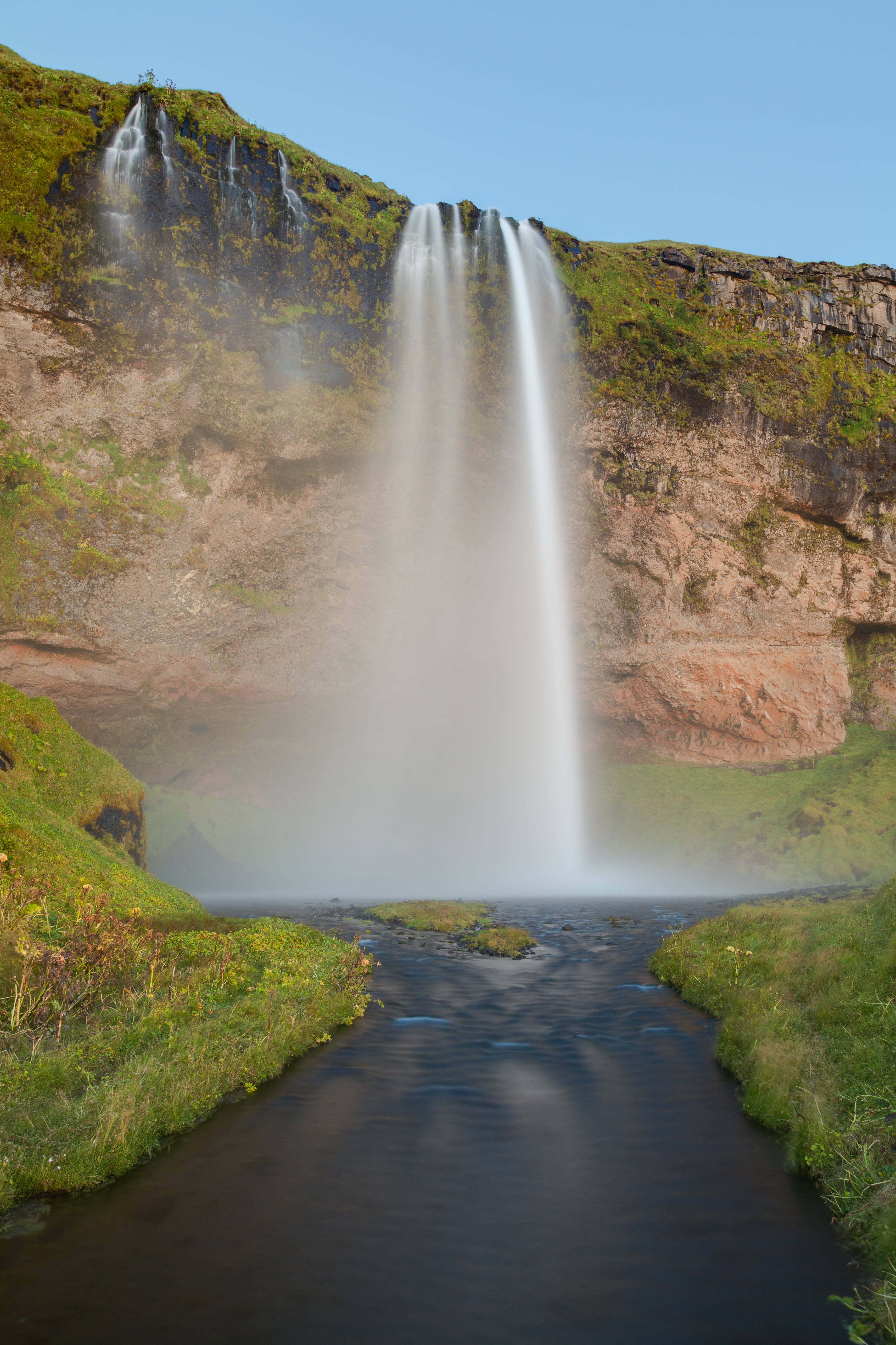 Seljalandsfoss, Suðurland, Iceland